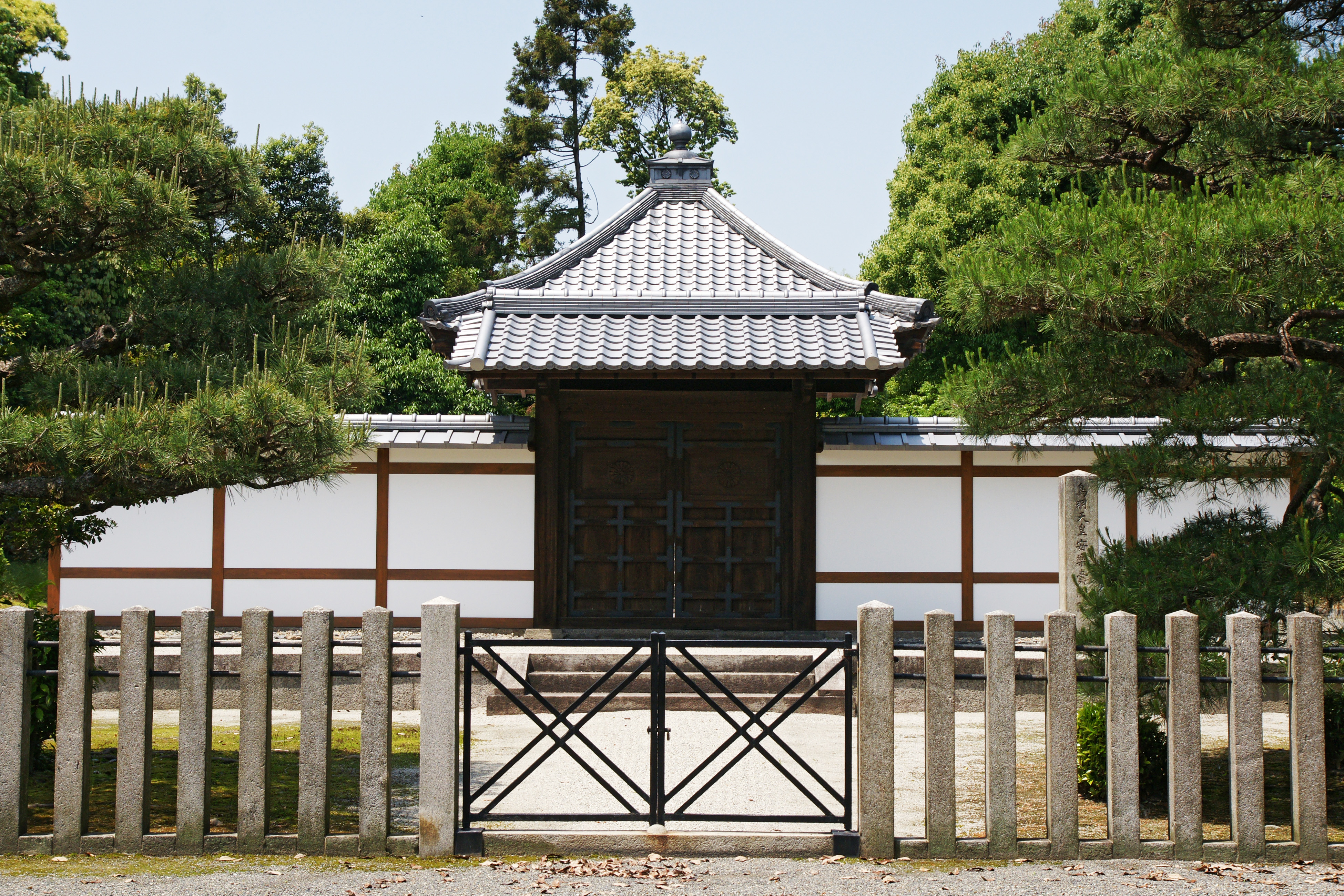 Anrakujuin in Kyoto, Kyoto prefecture, Japan.